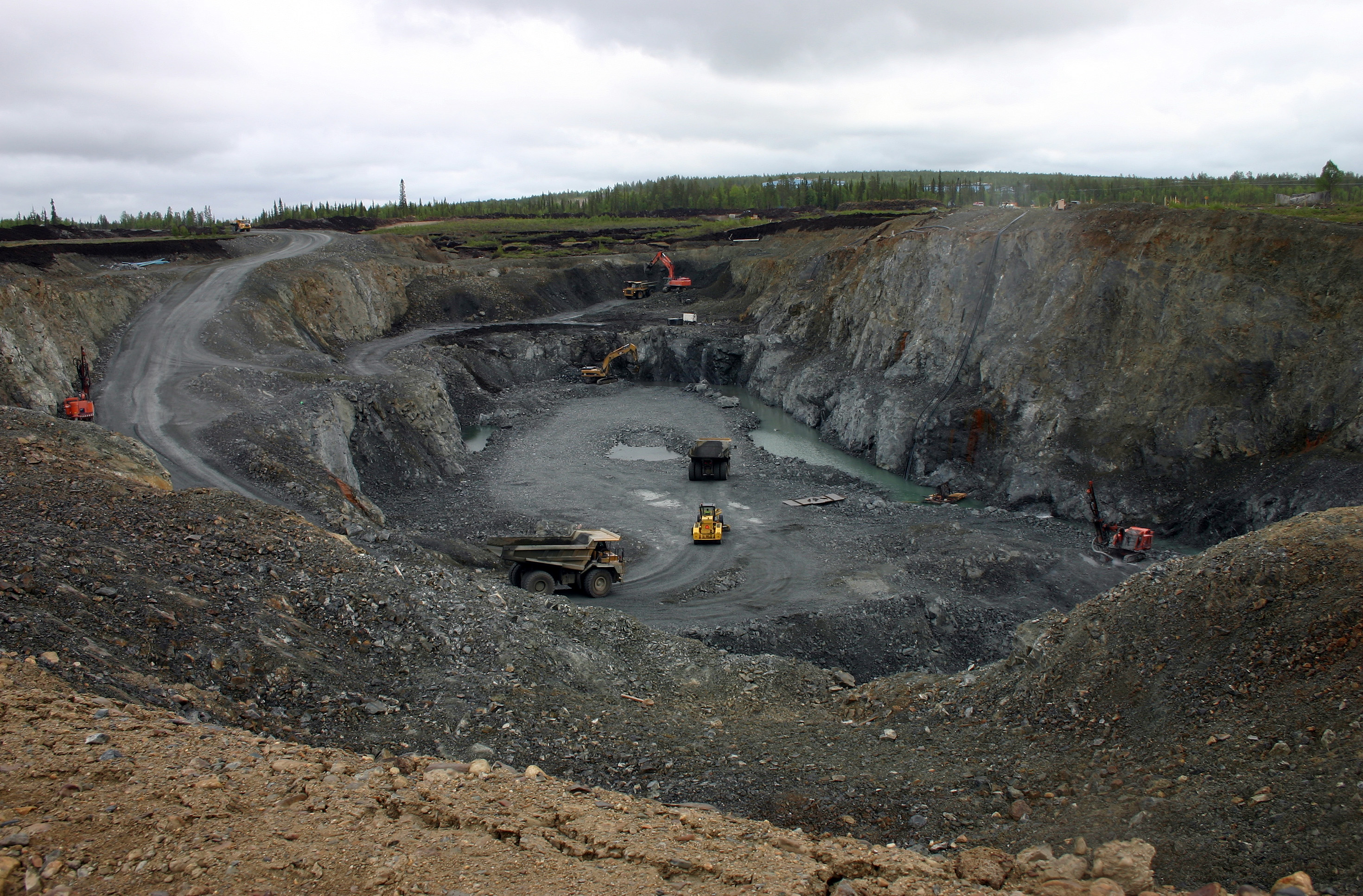 Kittilä mine in Kittilä, Finland.